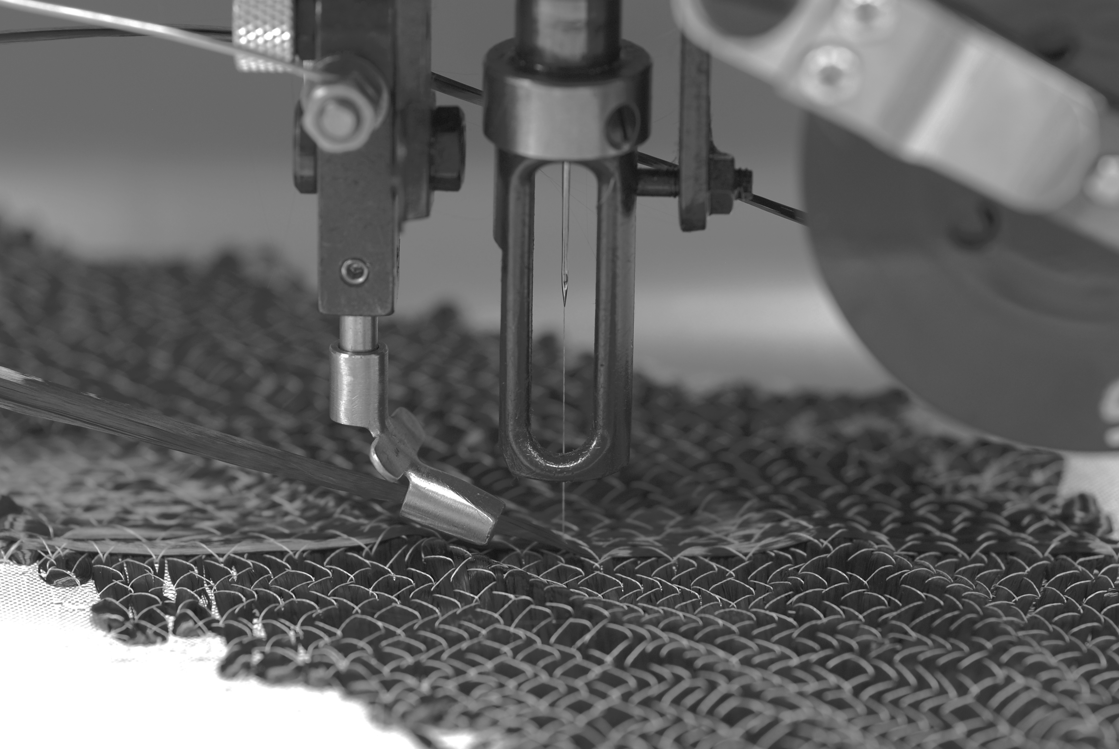 The picture shows the stichting head of an embroidery machine used to manufacture preforms with the tailored fiber placement process